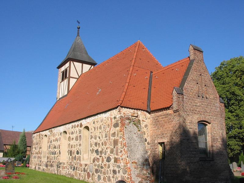 Church Gömnigk, built probably in 14th century. The village Gömnigk is a part of the town Brück in the district Potsdam Mittelmark, state Brandenburg, Germany, at the border to the natural preserve Naturpark Hoher Fläming.